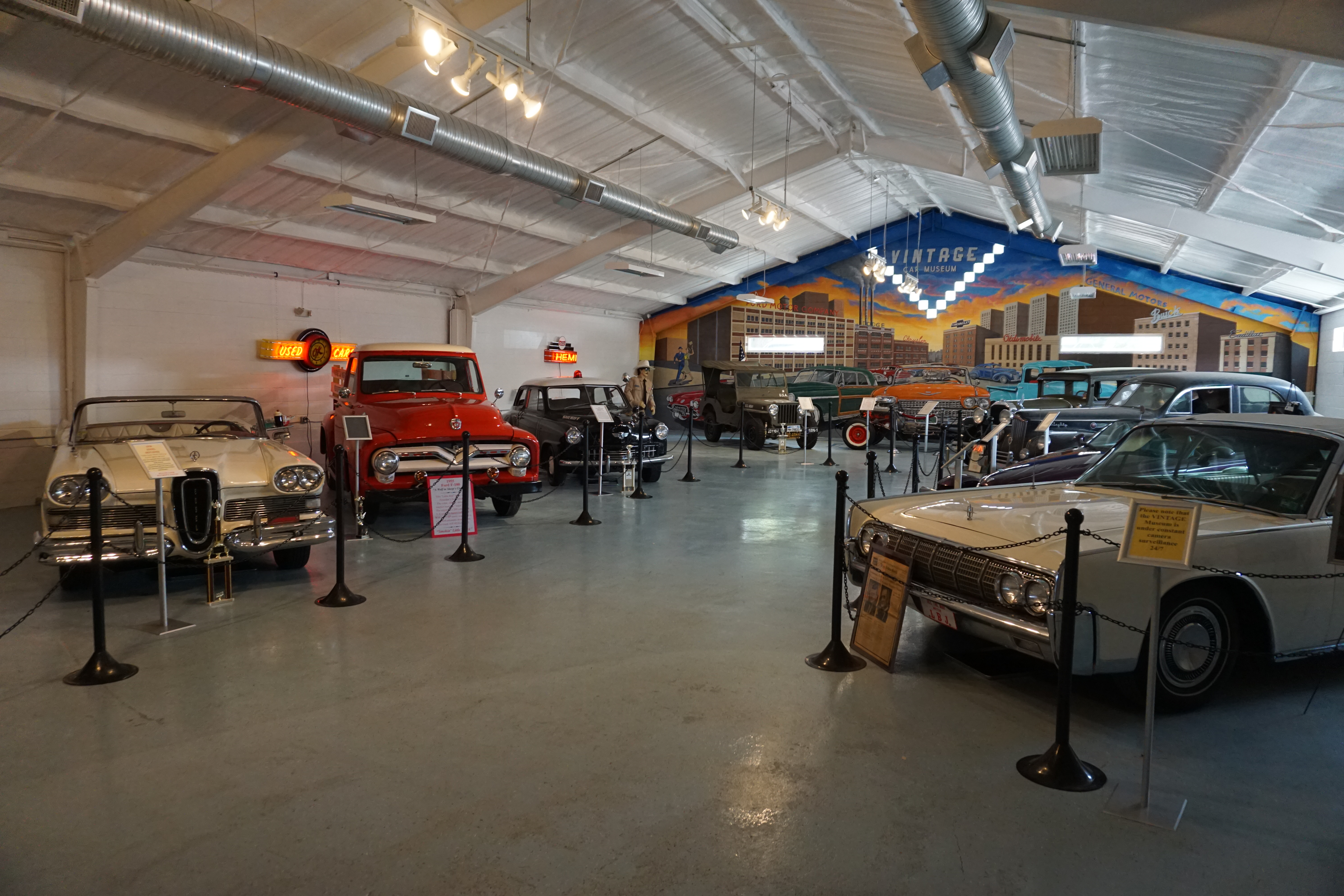 The interior of the Vintage Grill & Car Museum in Weatherford, Texas (United States).